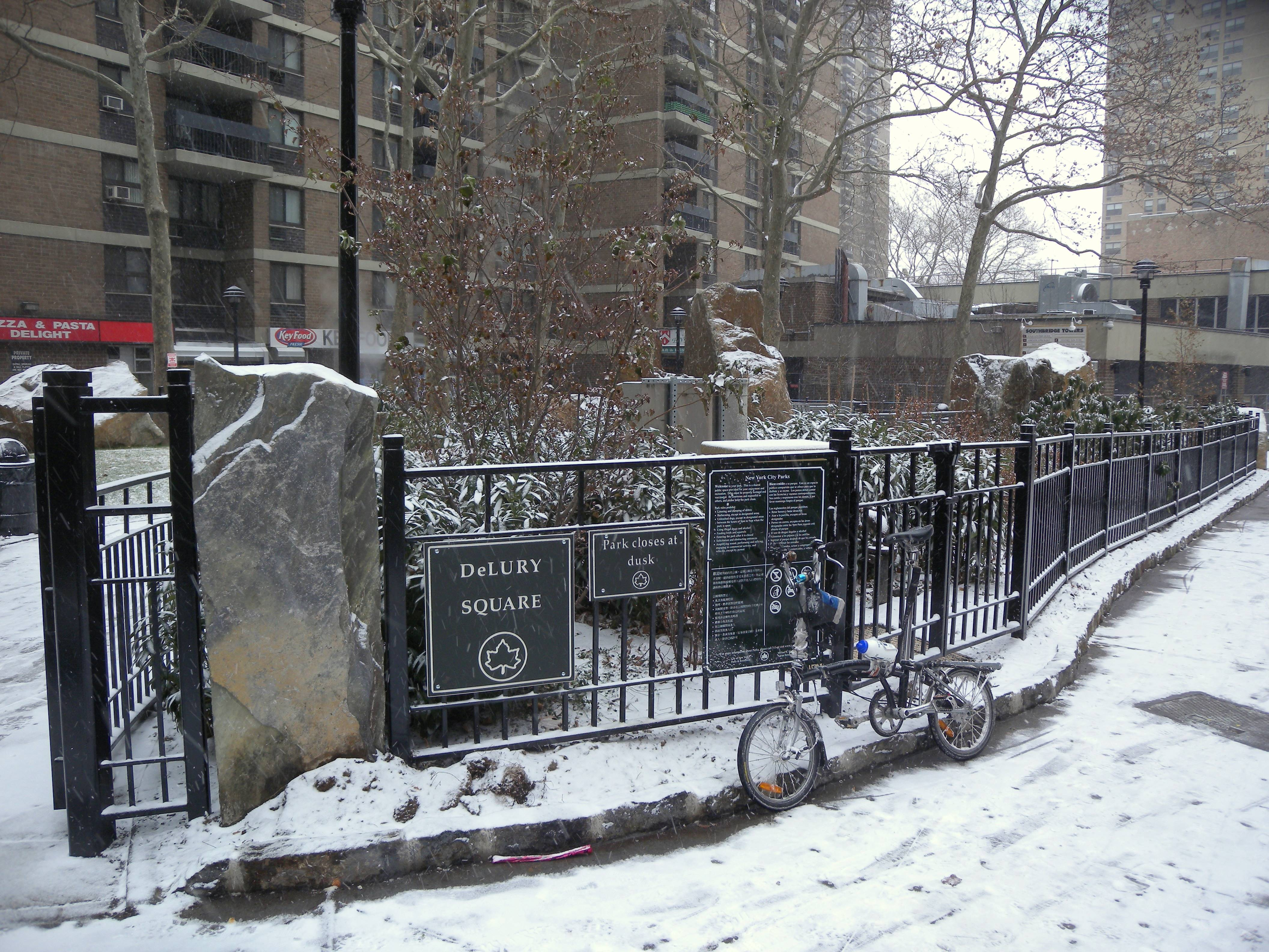 Looking east from Fulton Street across Gold Street at snowy John DeLury Sr Square Park.